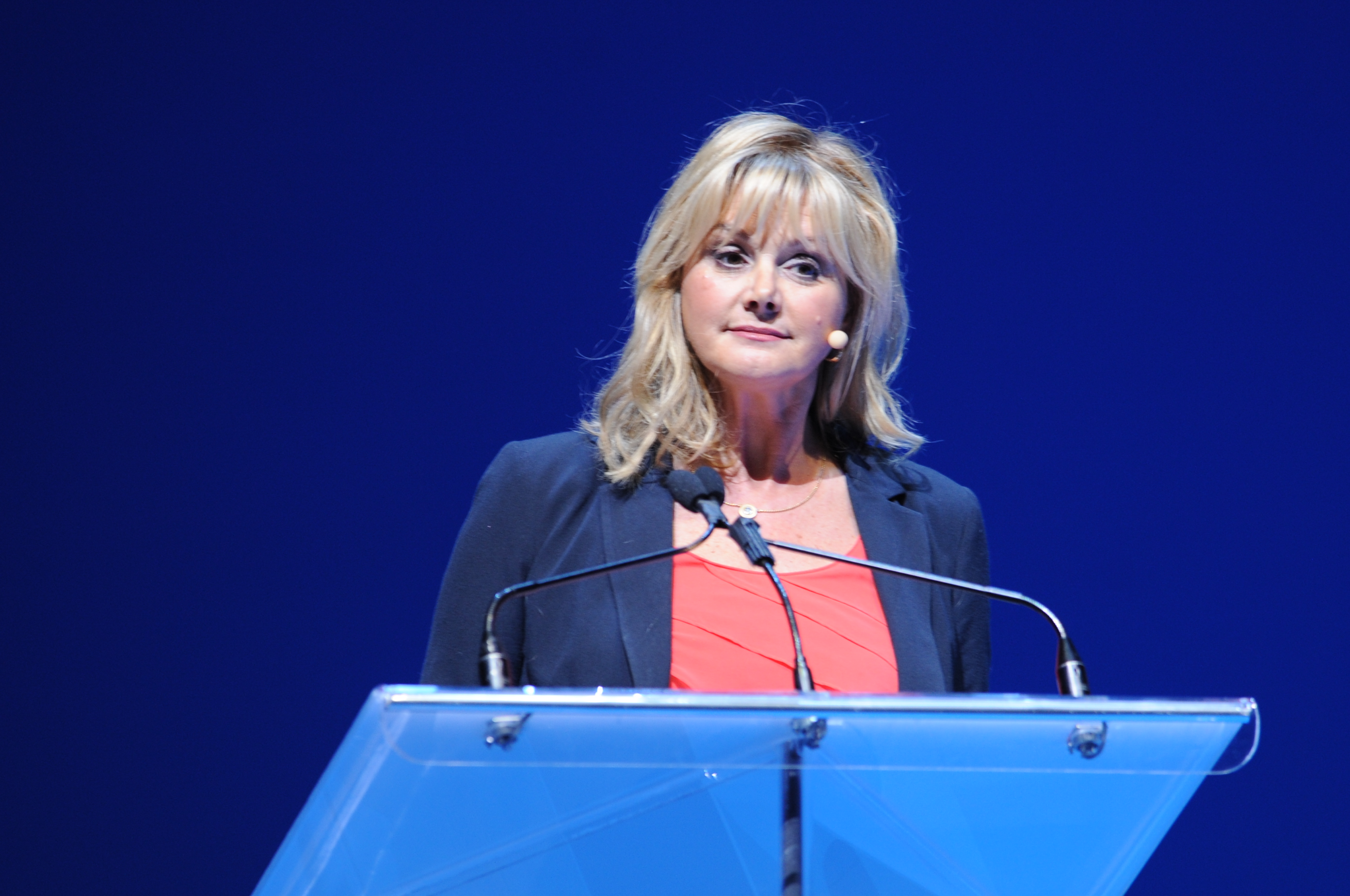 British-Canadian television personality Debbie Travis, the woman behind the largest celebrity brand in Canada, speaks at the Randstad Awards 2013.